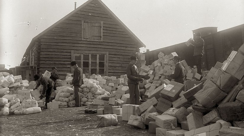 post-expedition Karungi Overseas was established in December 1914. Photo: Mia Green guess 1915